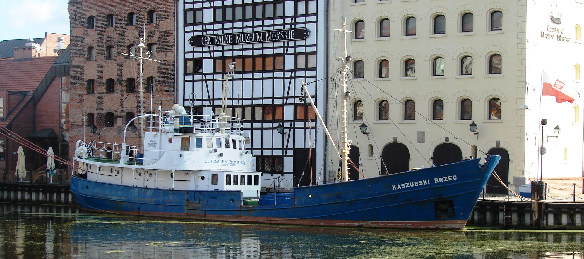 RV Kaszubski Brzeg in front of The Polish Maritime Museum in Gdańsk